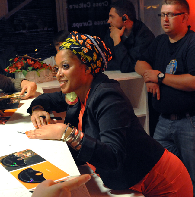 Sara Tavares signing her latest record in Warszawa in September 2011.